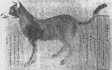 Kuda-gitsune (くだ狐) from the Kōshi yawa (甲子夜話)